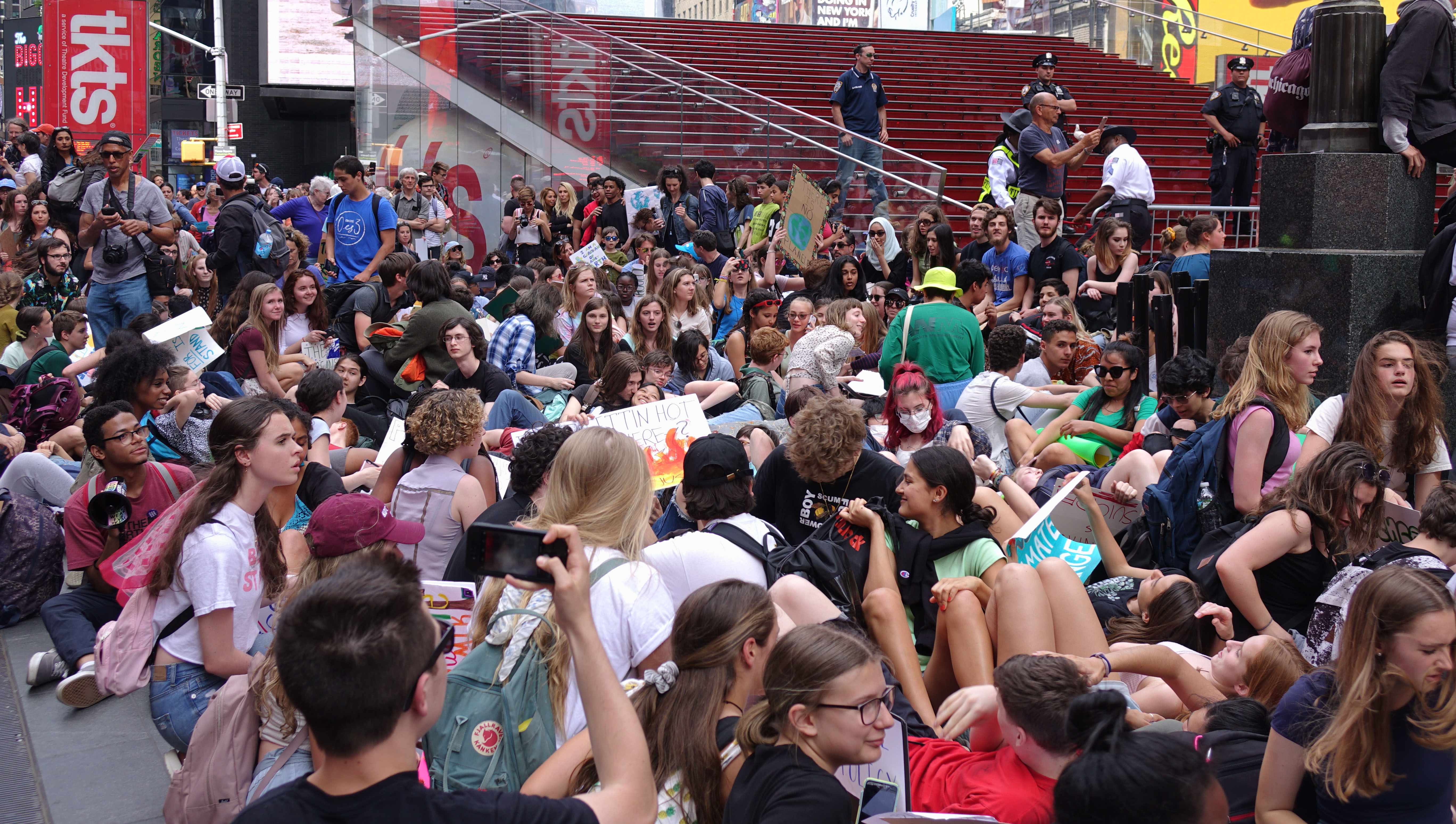 085 Youth Climate Strike